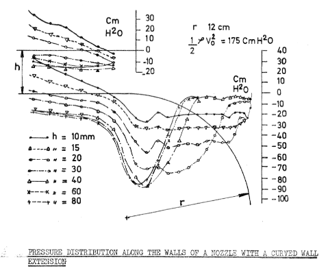 Measuring surface pressure along a circular wall of radius r = 12 cm, deflecting a jet Reynolds number 106 of width h. The pressure begins to decrease due to the transverse gradient to an angle 9° along the wall, then remains constant if the h/r ratio of the width of the jet to the radius is less than 0.25 along an additional angle which is "true Coandă effect", and finally increases back to the ambient pressure again over another angle 9°. If the h/r ratio is more than 0.5, the local effects 2 x 9° only occur and there is "no true Coandă effect". Experiments made by the author and J. Liermann in the laboratory of the author, SNECMA, published in: Kadosch M., "Déviation d'un jet par adhérence à une paroi convexe" in: Journal de Physique et Le Radium, avril 1958, Paris, p.9A.